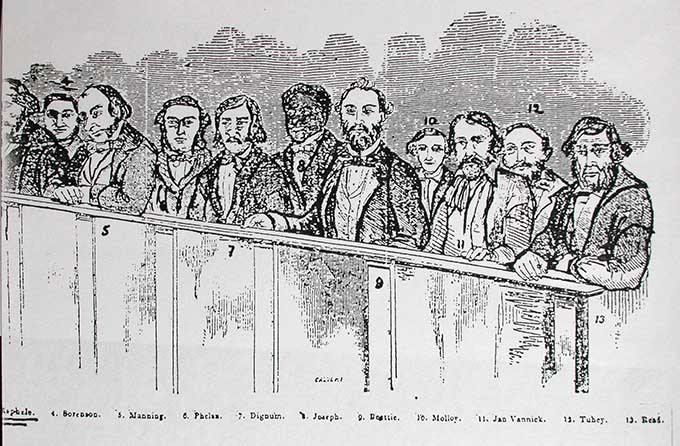 Wood engraving titled Rebels in the Dock, showing participants in the Eureka Rebellion on trial